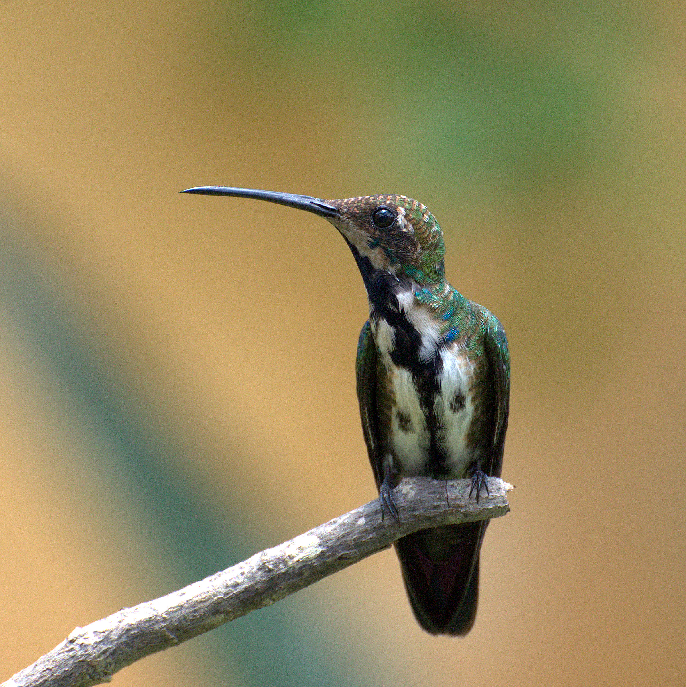 Female Black-throated Mango (Anthracothorax nigricollis) in Piraju-SP, Brasil.